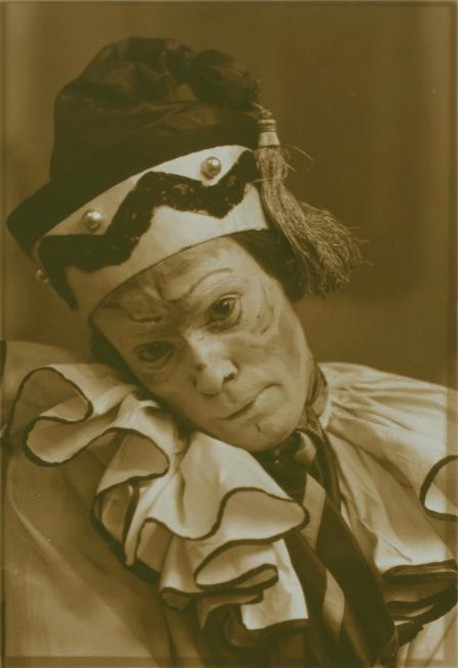 Mounted on board with Nijinsky, Vaslav no. 2053. Note 2.) Portrait of Vaslav Nijinsky, head bent and resting upon his right shoulder in the title role of Petrouchka.